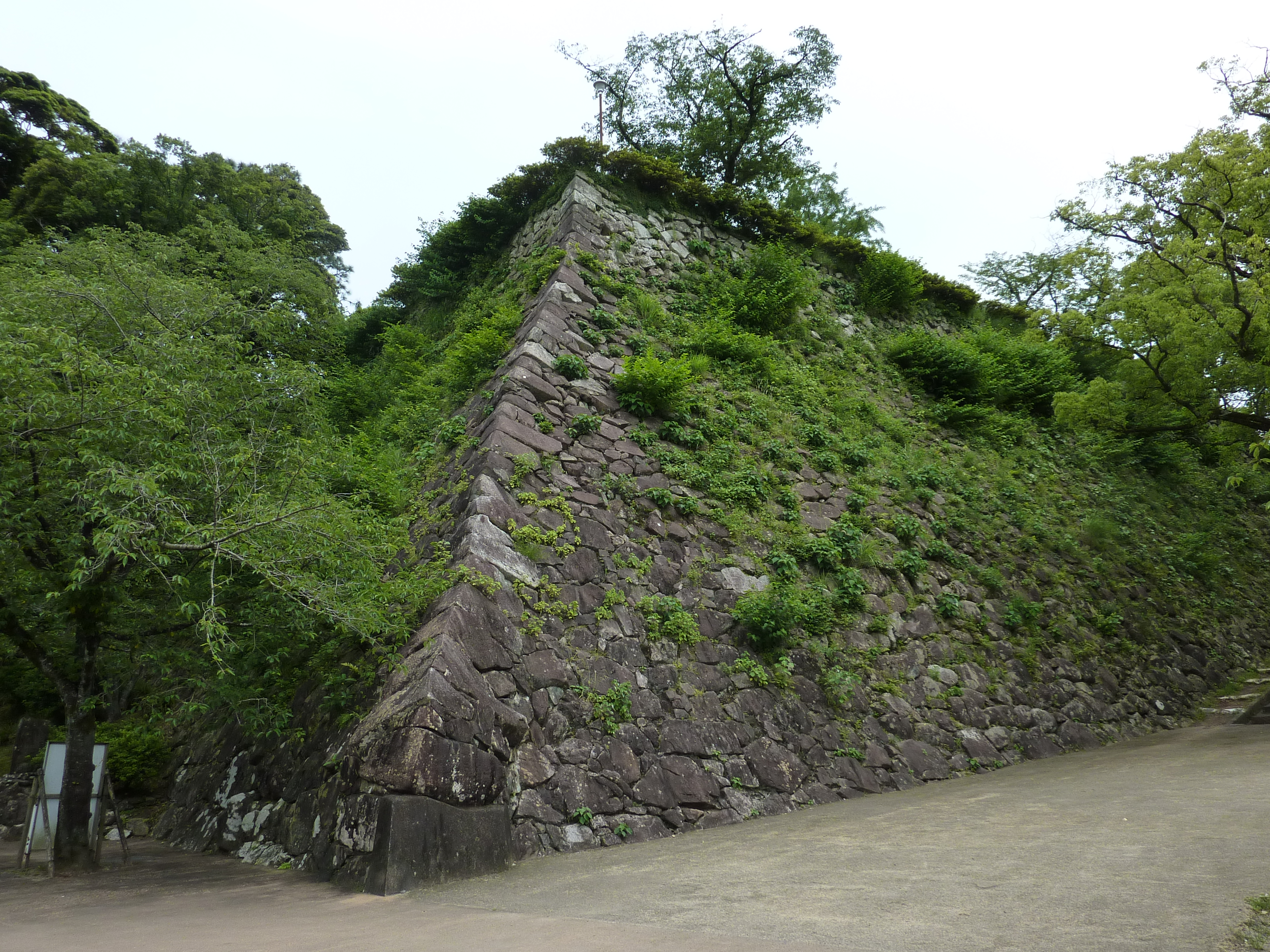 Nobeoka Castle - Stone Wall (Nobeoka City, Miyazaki, Japan)